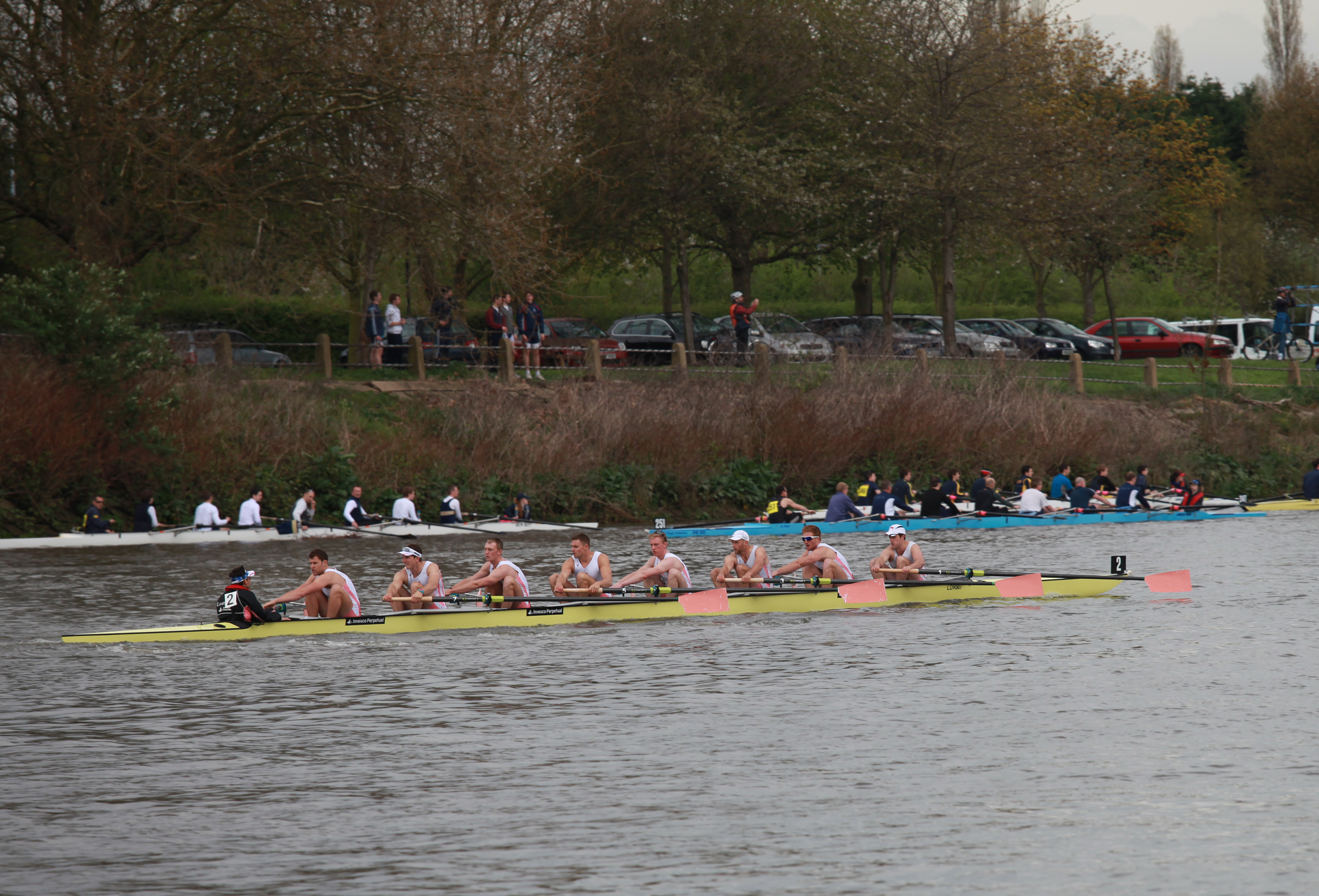 Leander Club's first VIII just after starting the 2011 Tideway Head of the River Race, the camera looking North-East from the south (Surrey) bank. Crew: Ben Duggan, Will Satch, Alex Partridge, Rick Egington, Pete Reed, Alex Gregory, Matt Langridge, Dan Ritchie; Cox: Phelan Hill; Coach: Mark Banks (source for crew is